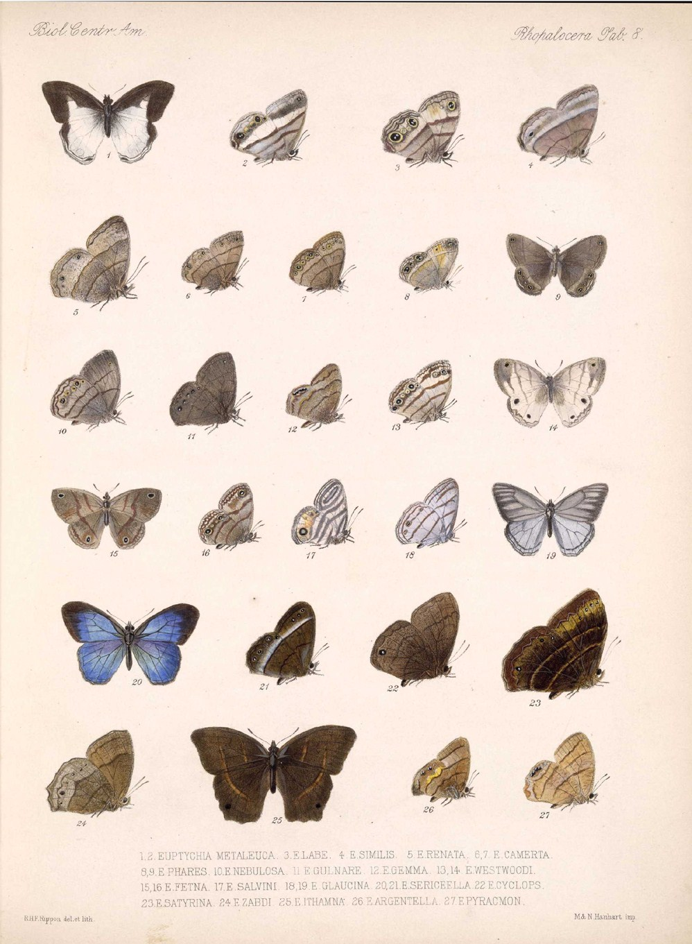 Biologia Centrali Americana Rhopalocera Pedaliodes melaleuca Weymer, 1890